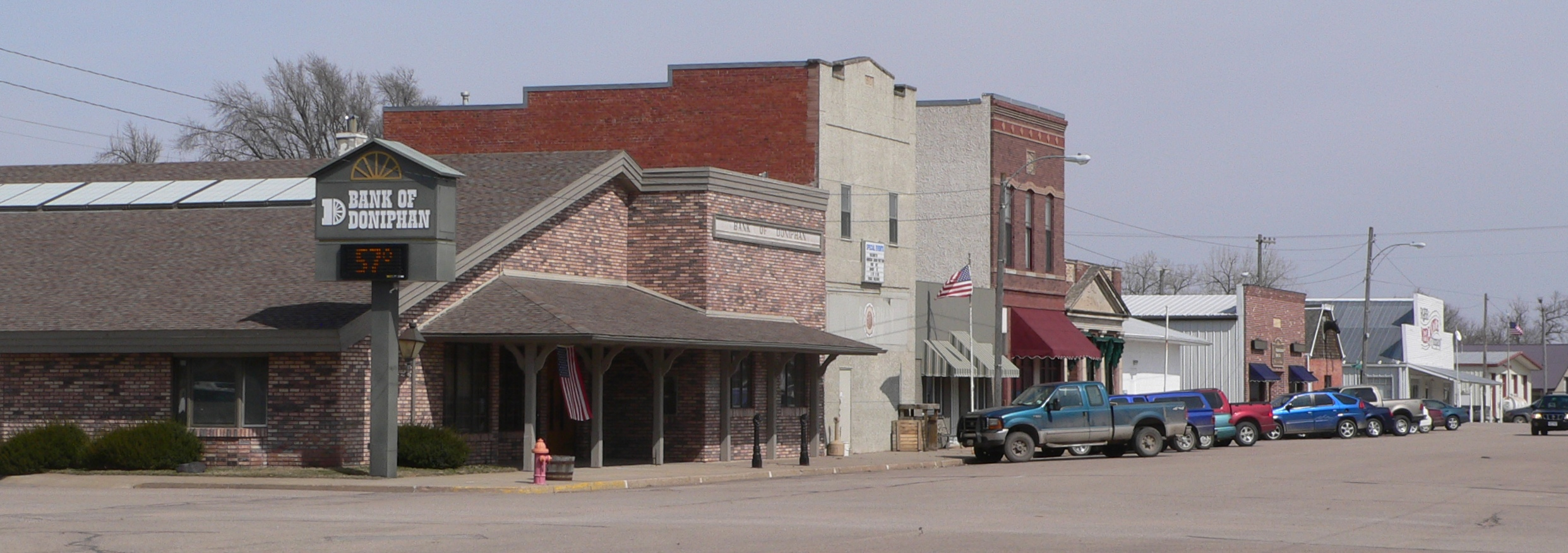 Downtown Doniphan, Nebraska: West Main Street, seen from the southwest.